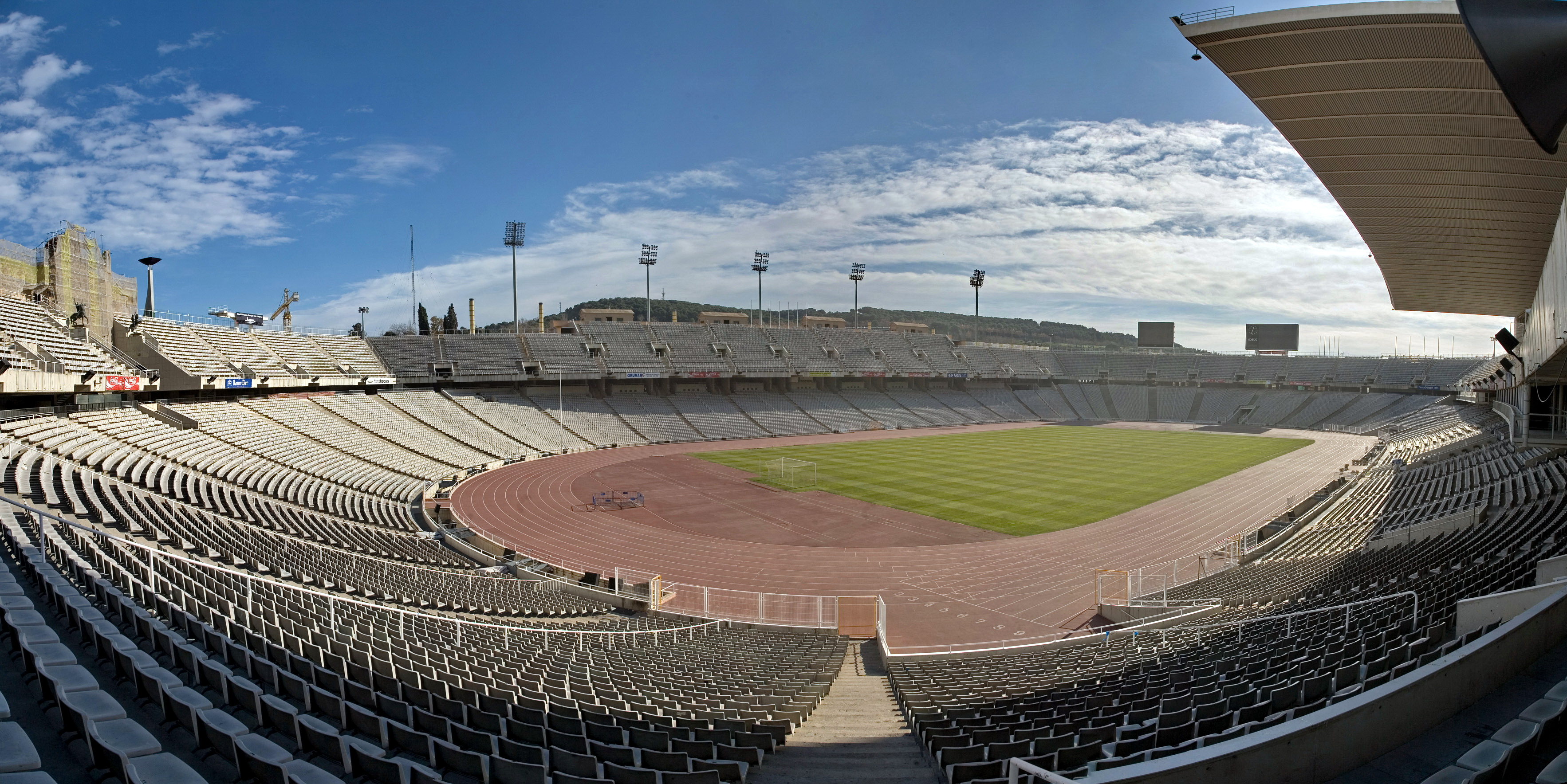 A four segment panoramic image of the Estadi Olímpic Lluís Companys in Barcelona, Spain. Taken by myself with a Canon 5D and 24-105mm f/4L lens.